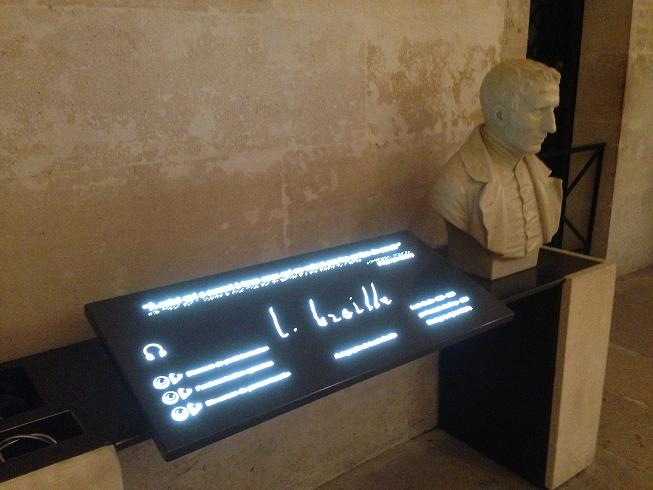 The memorial to Louis Braille in the Panthéon in Paris.